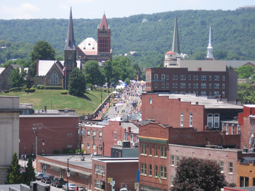 Cumberland, Maryland, Heritage Festival